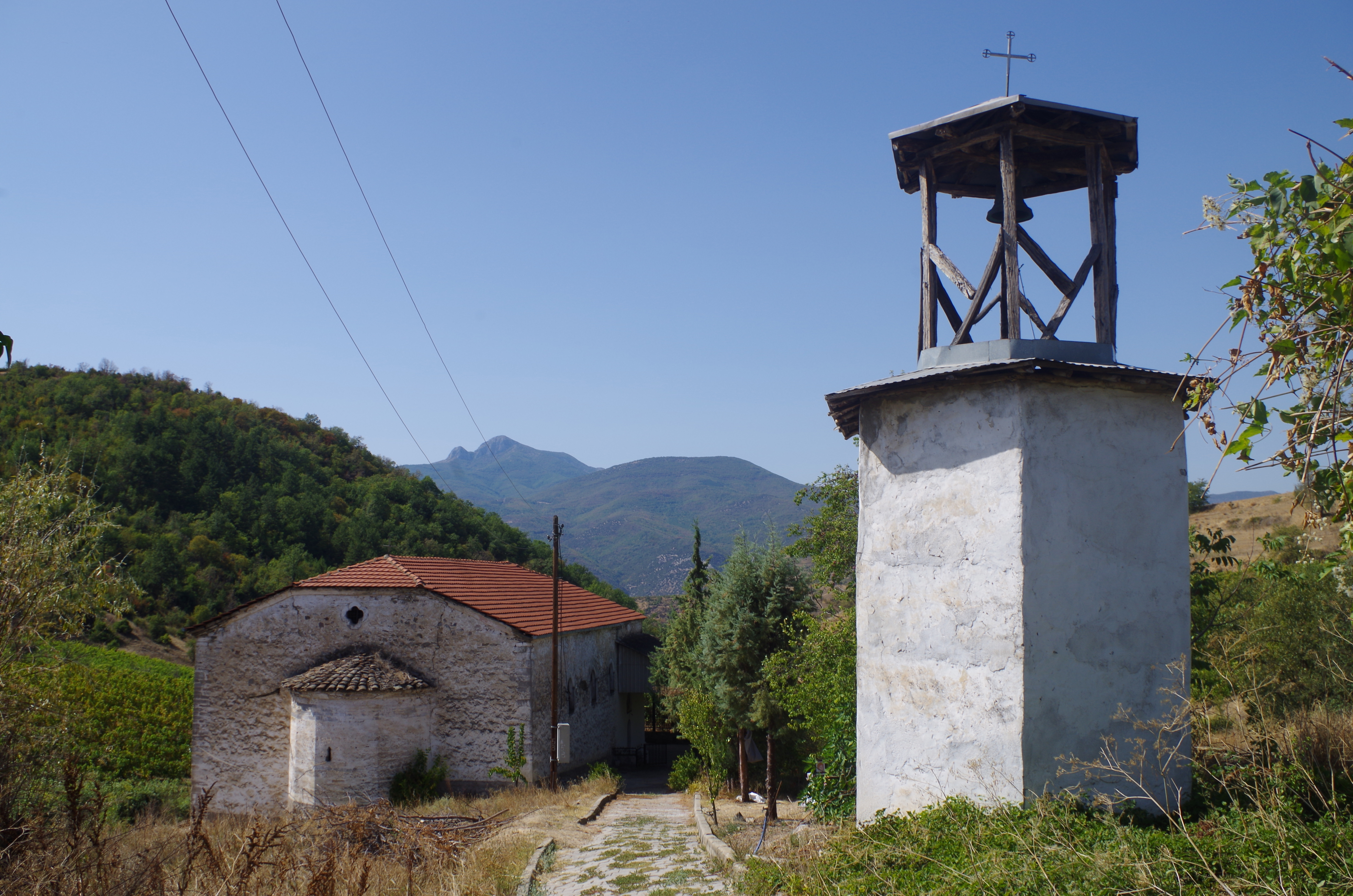 Church of the Theotokos in the village of Begnište